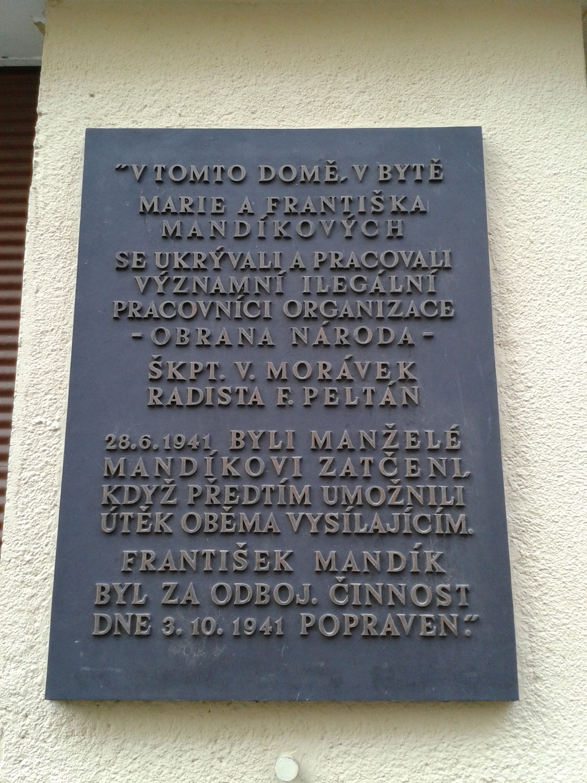 A bronze memorial plaque on the building in Prague 4 Nusle (Horní 1466/10, 140 00 Praha 4 - Nusle) points out that in this building (in the apartment of Marie and František Mandík) (since the beginning of occupation) were hiding illegal resistance fighters. Representatives of illegal Organisations: Defending the Nation (ON) and ÚVOD worked here and they held several meetings here. For example here petered General Bedřich Homola or Colonel Josef Churavý. The memorial plaque mentions two significant illegal workers from the circle of the "Three Kings": Staff Captain Václav Morávek (* 1904 - 1942) and the radio operator František Peltán (* 1913 - 1942). On 28 June 1941 Peltán's illegal radio SPARTA II has been focused during transmitting from the flat of spouses František and Marie Mandíks. František Peltán spiritedly escaped arrest by the Gestapo in disguise for railroaders, but both husband and wife were arrested. František Mandík was for resistance activities on October 3, 1941 executed.